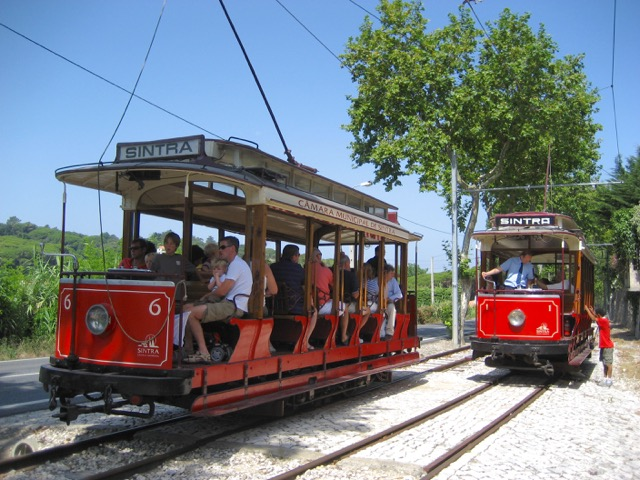 Sintra trams 6 and 1 at the Galamres passing loop.